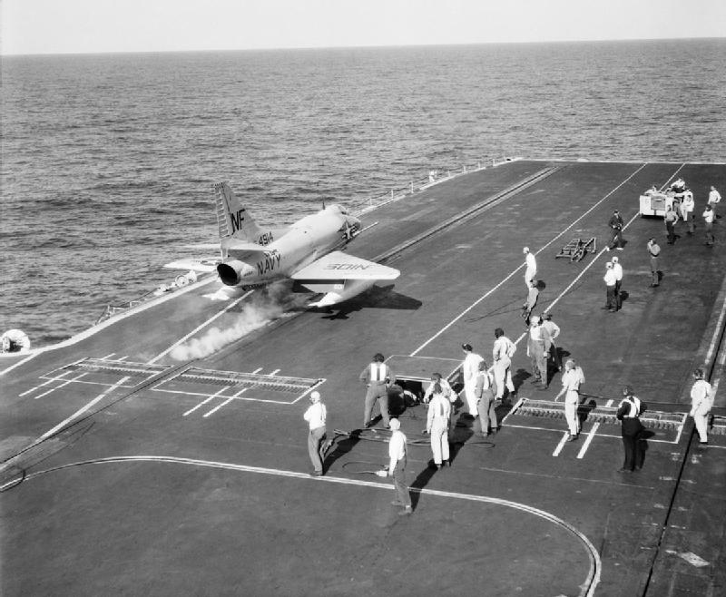 A U.S. Navy Douglas A4D-2 Skyhawk (BuNo 144914) from Attack Squadron VA-55 "Warhorses" launching from the Royal Navy aircraft carrier HMS Victorious (R38) during exercise "Crosstie" in the South China Sea, November 1961. VA-55 was assigned to Carrier Air Group 5 (CVG-5) aboard the USS Ticonderoga (CVA-14) for a deployment to the Western Pacific from 10 May 1961 to 15 January 1962. Original caption: "British and US aircraft carriers cross operating. November 1961, on board HMS Victorious, during exercise "Crosstie" in the South China Sea. HMS Victorious and the US carrier Ticonderoga along with their escorts took part in the exercise, during which British Sea Vixen, Scimitars, Gannet and Whirlwind aircraft operated from the Ticonderoga while US Navy Skyhawk, Demon and Skyray aircraft operated from the deck of the Victorious. The aircraft exercised arming with weapons of the other nation and British and American aircraft were directed from either the operations centres of Victorious or Ticonderoga."